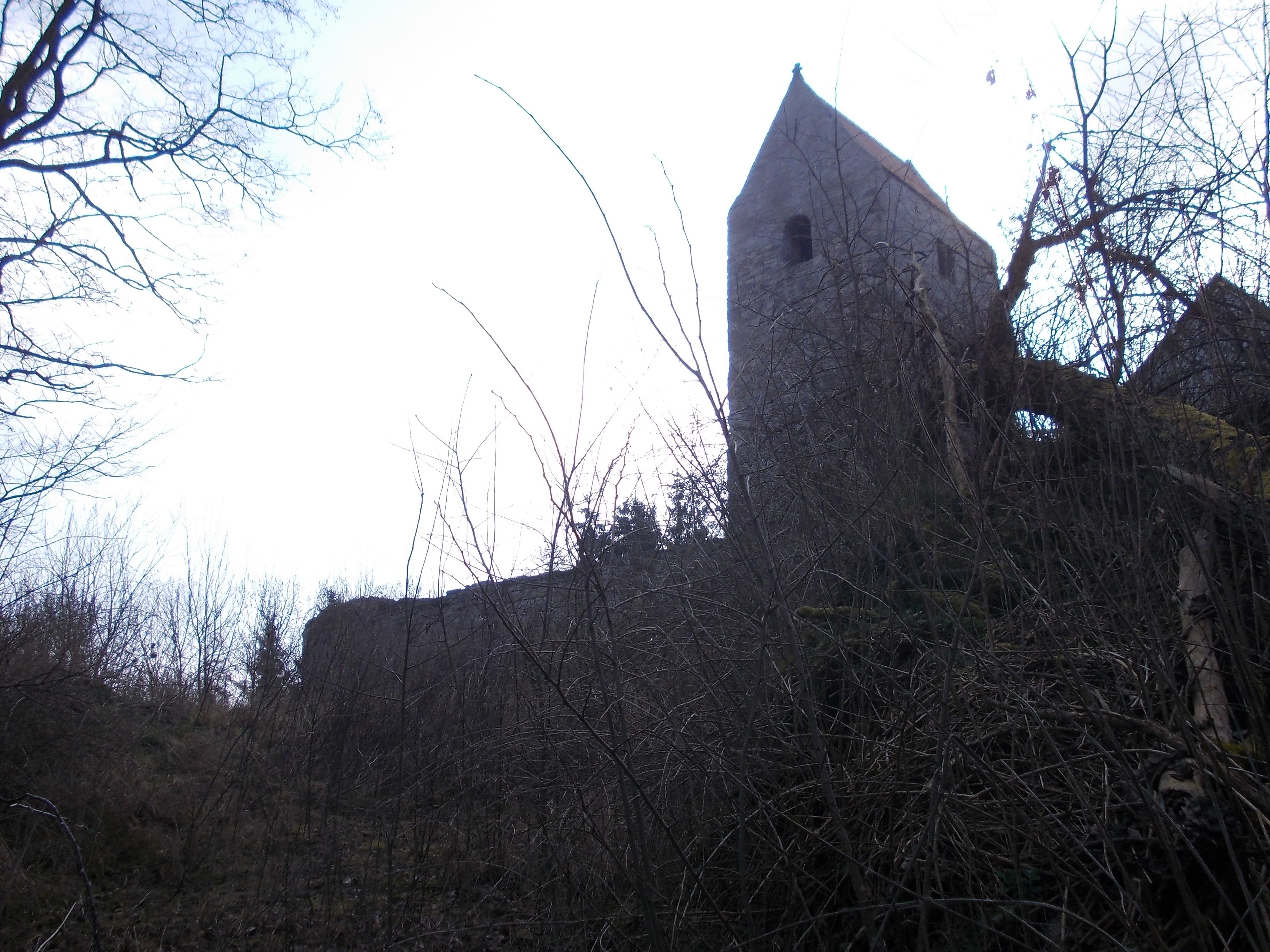 Ruins of St. George's church in Gödewitz (Salzatal, district: Saalekreis, Saxony-Anhalt)